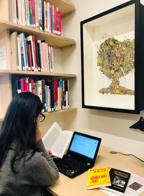 A study space in Stuart Hall Library showing a Hew Locke original artwork, part of the Iniva portfolio.